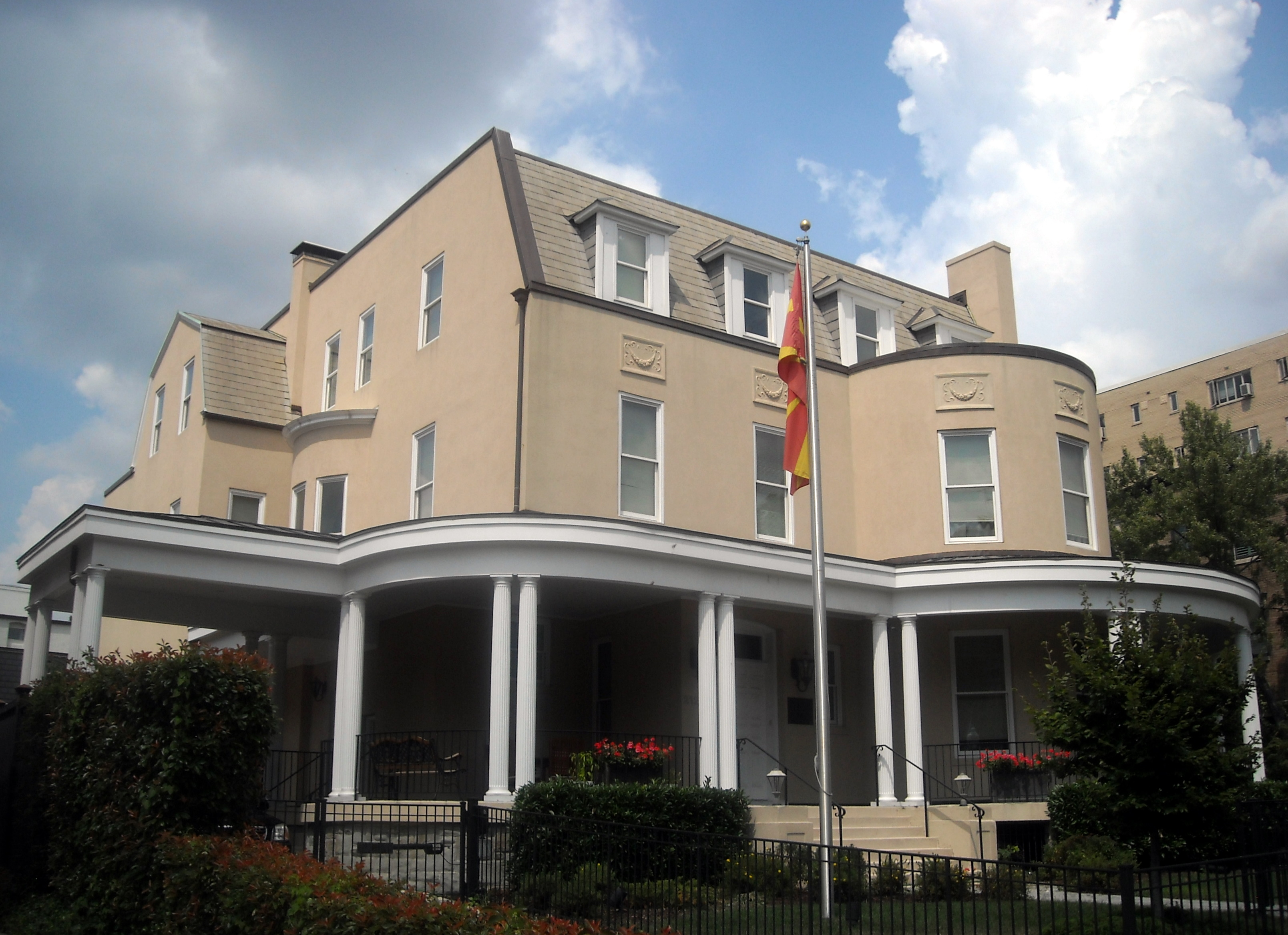 The facade and veranda of the Embassy of the Republic of Macedonia (also known as the Moses House) — located at 2129 Wyoming Avenue, N.W., in the Sheridan-Kalorama neighborhood of Washington, D.C. Designed by Thomas Franklin Schneider in 1893, the building is in the Queen Anne style, with Neoclassical style architectural features. The embassy is a contributing property to the Sheridan-Kalorama Historic District, and listed on the National Register of Historic Places in Washington, D.C. Now owned by the government of the Republic of Macedonia, it served as the Embassy of France for almost 40 years. Its 2009 property value was $3,453,840.